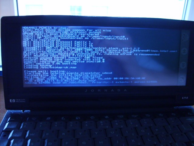 JLime booting on Jornada 690